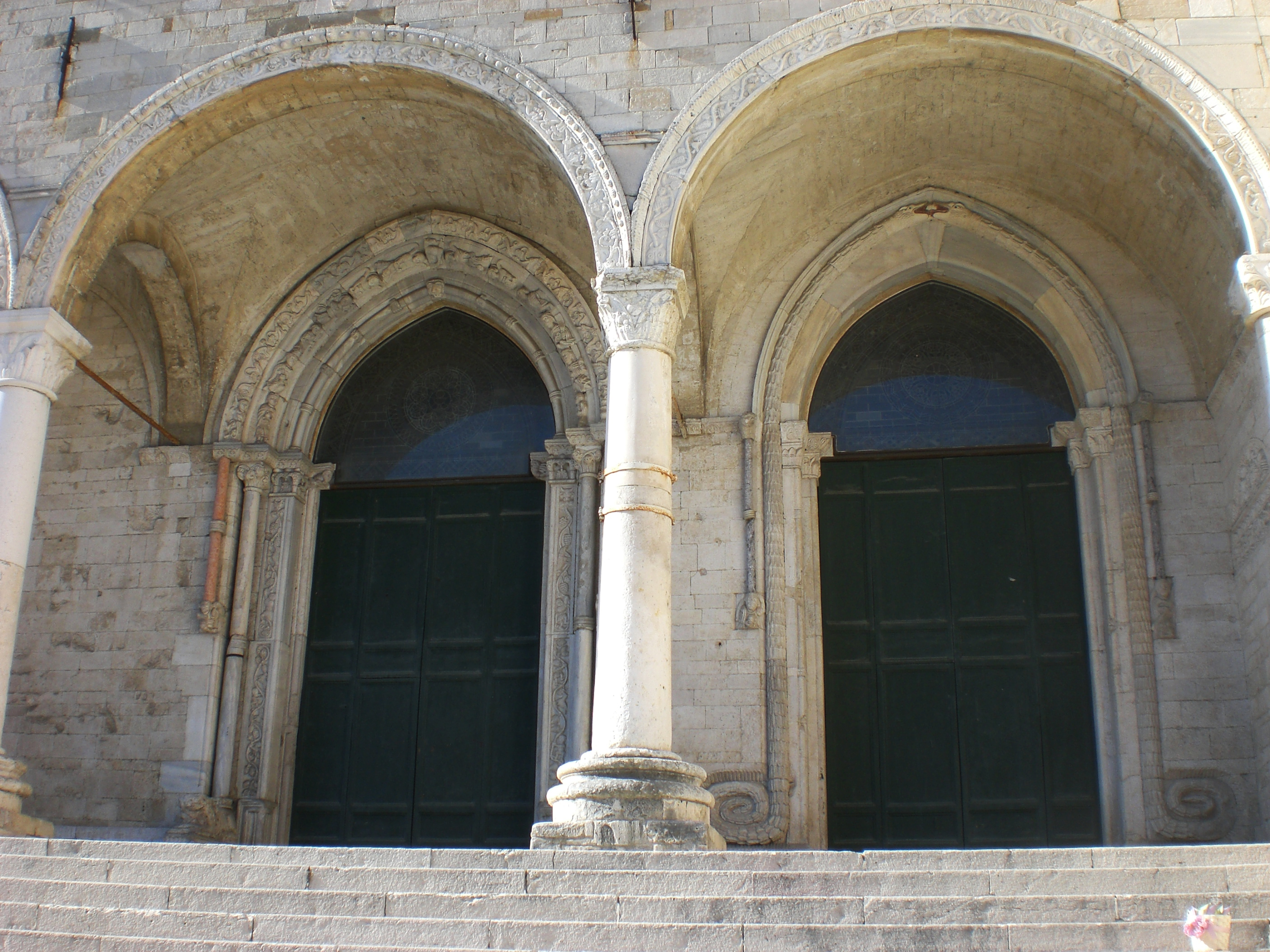 Osimo, Cathedral